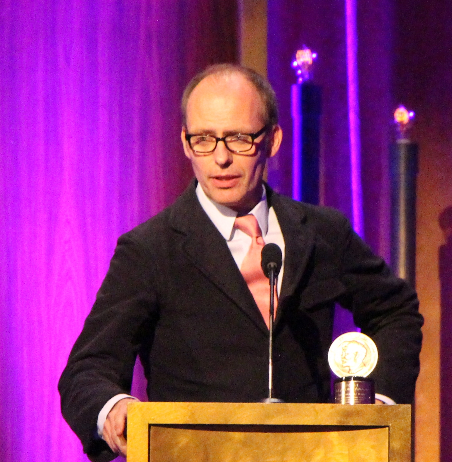 Taken at the 74th Annual Peabody Award ceremony in NYC.